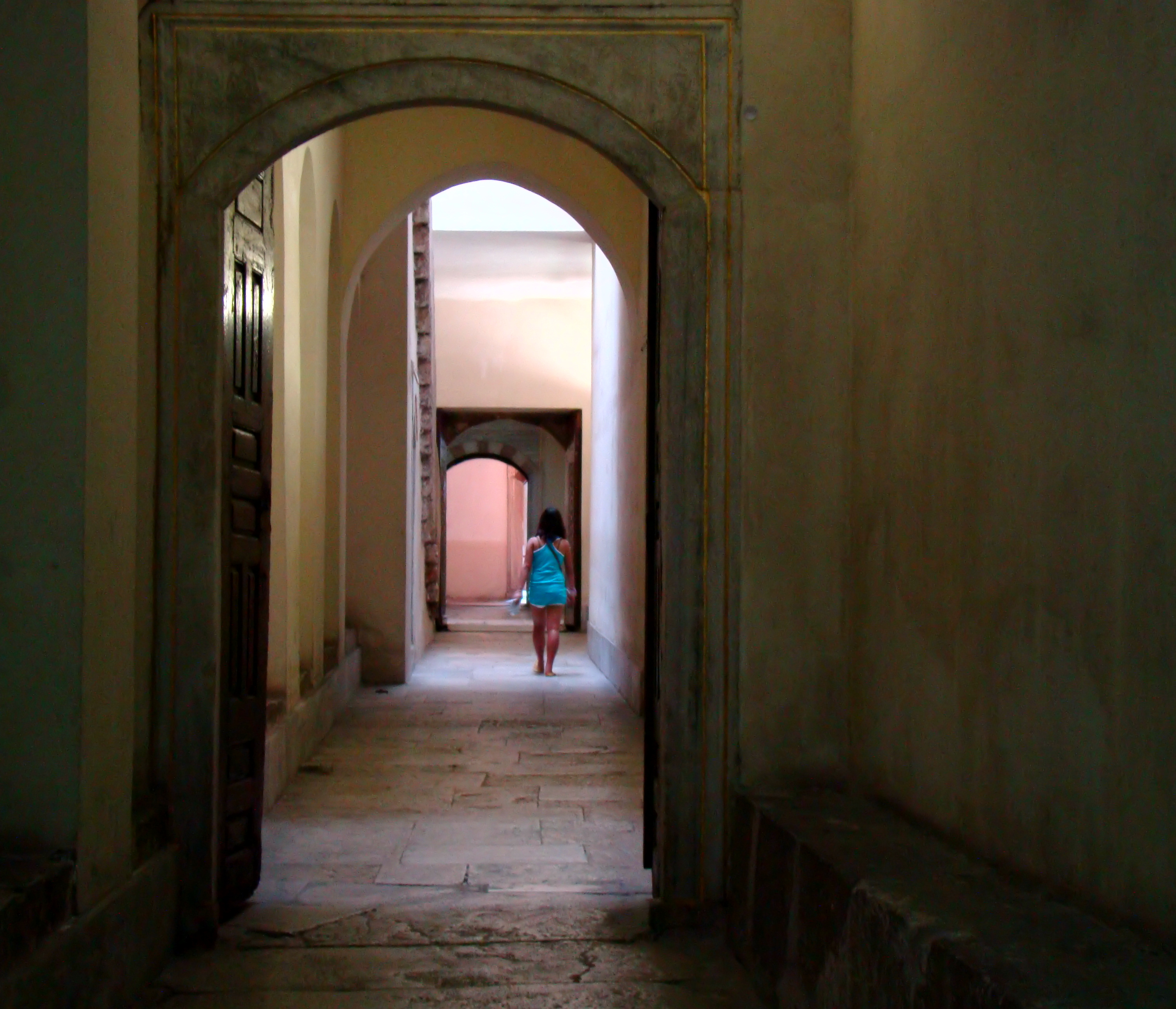 "The Golden Road" leads out of the Harem section of the Topkapı Palace. The reason for the name is said to be that on special occasions the Sultan would throw golden coins here, and concubines would pick them up and keep them. This theory is disputed by some, though.